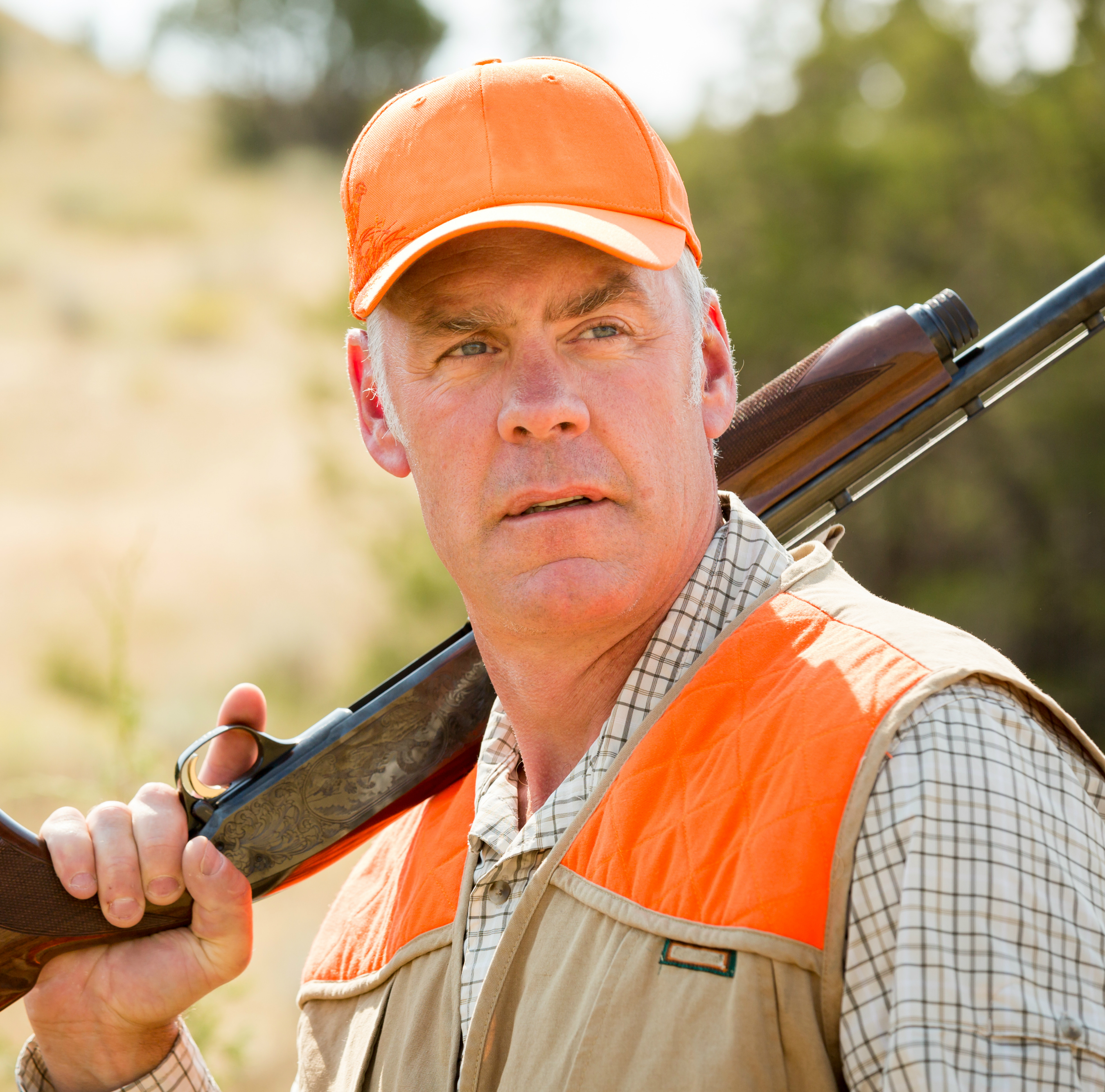 Ryan Zinke official photo